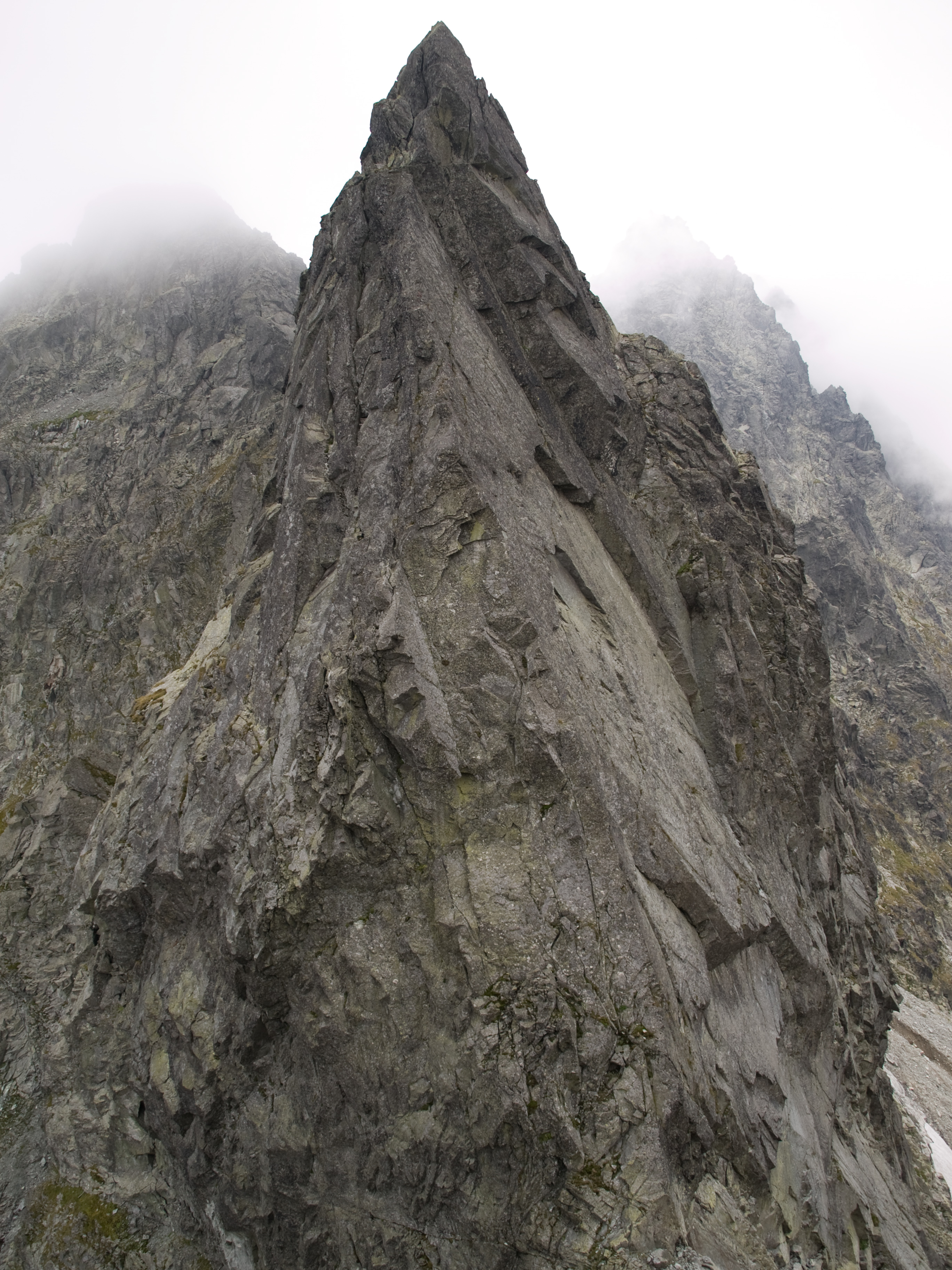 Východný Železný štít – view from the ridge of Hrubá Snežná kopa.